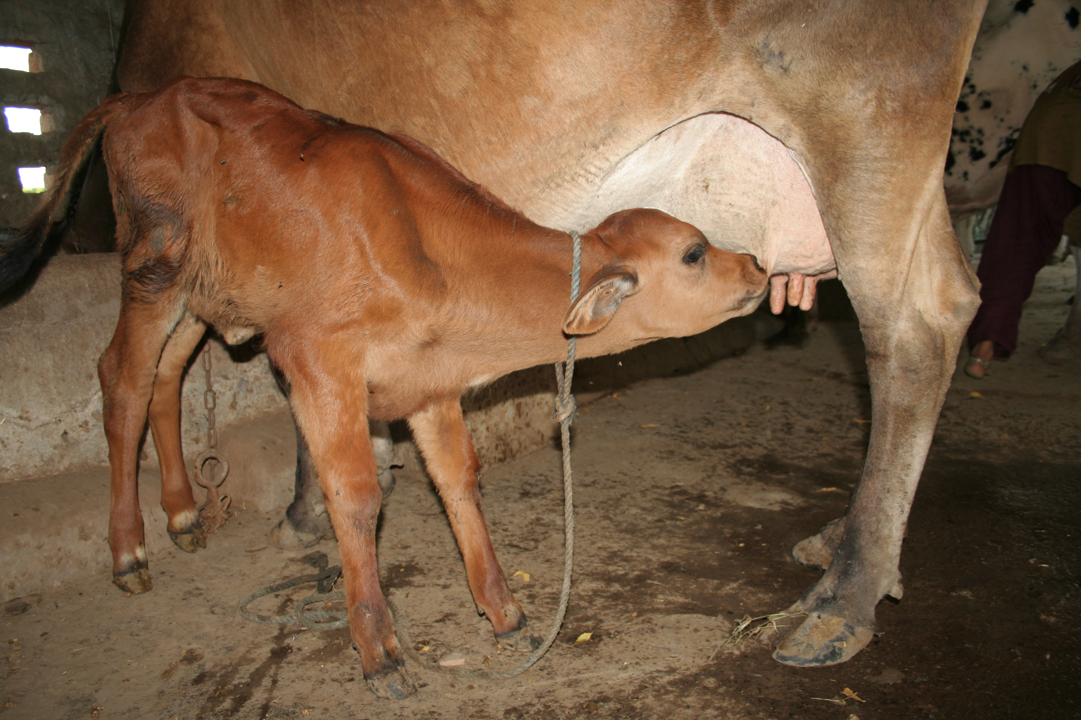 Suckling calf, near Mehsana, Gujarat, India.